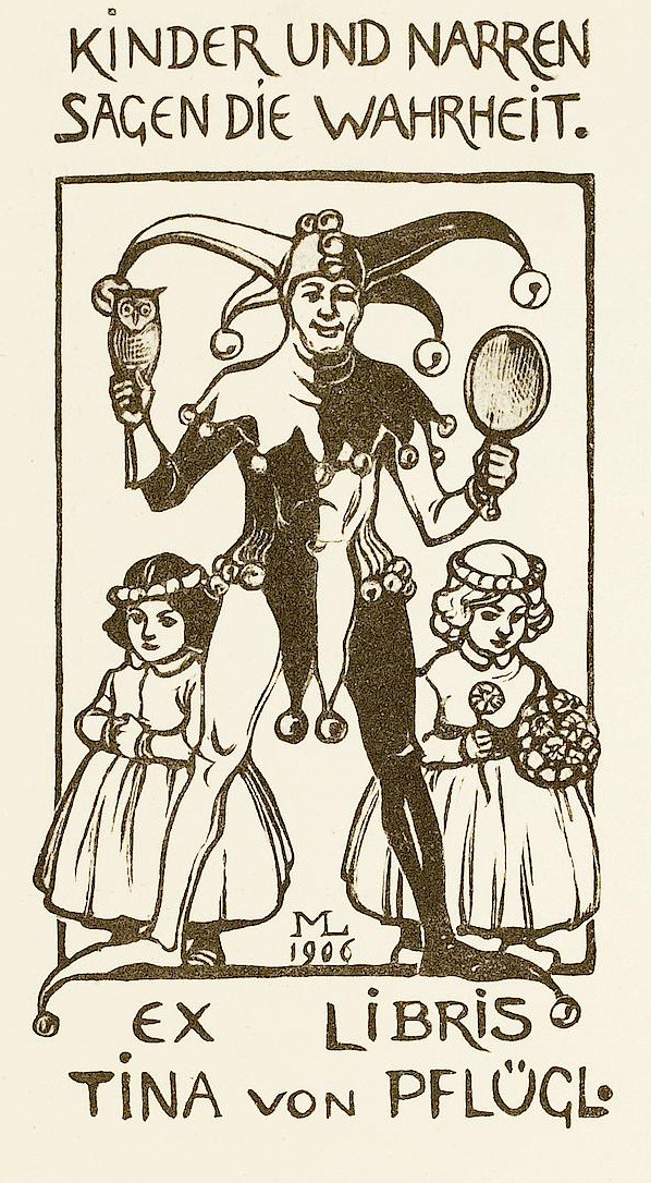 Ex libris design by Maximilian Liebenwein, published in Die graphischen Künste in 1911.